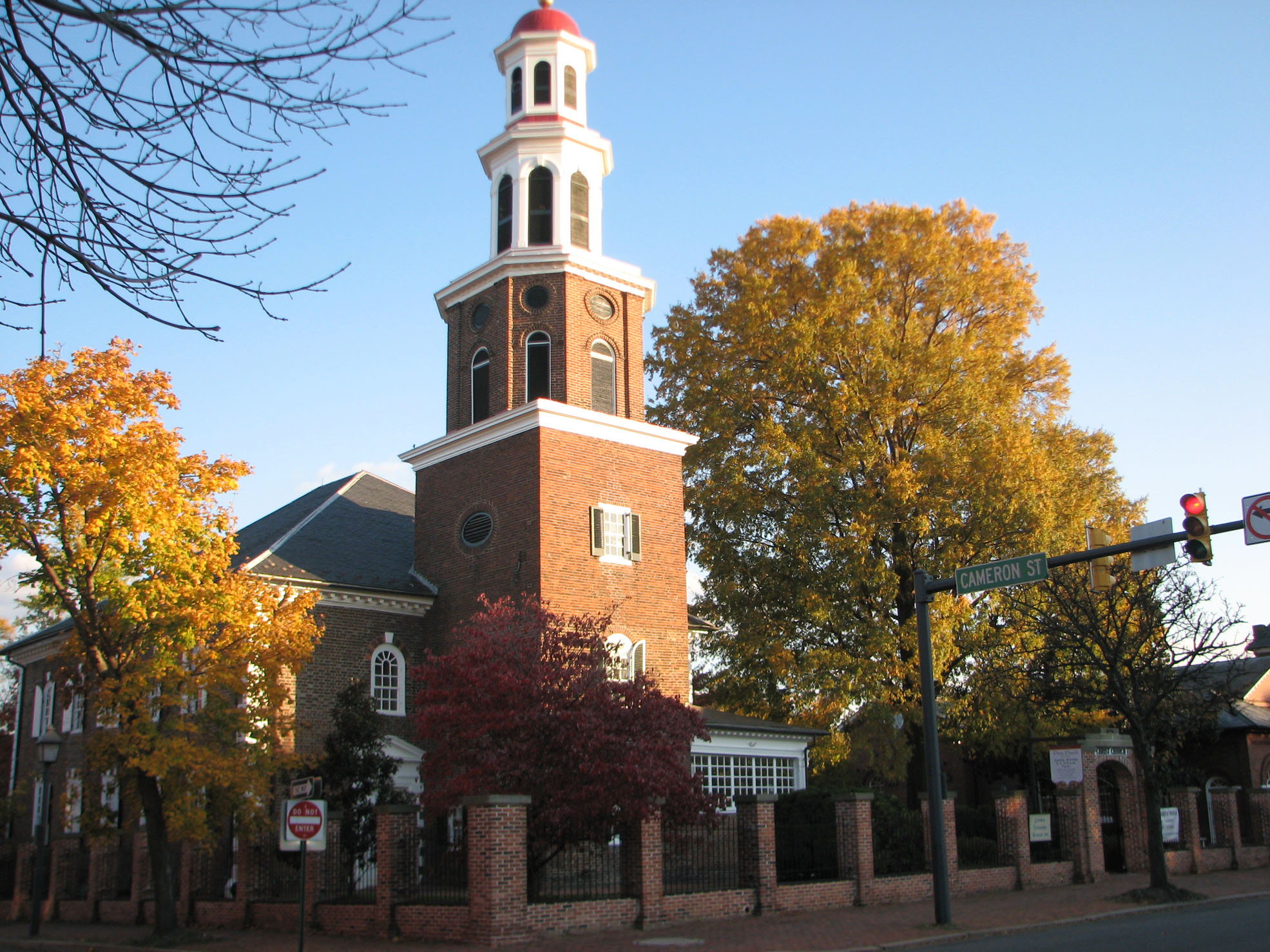 Photograph of Christ Church in Alexandria, Virginia, taken on November 3rd, 2006, at approximately 4:30 PM EST, by RebelAt.